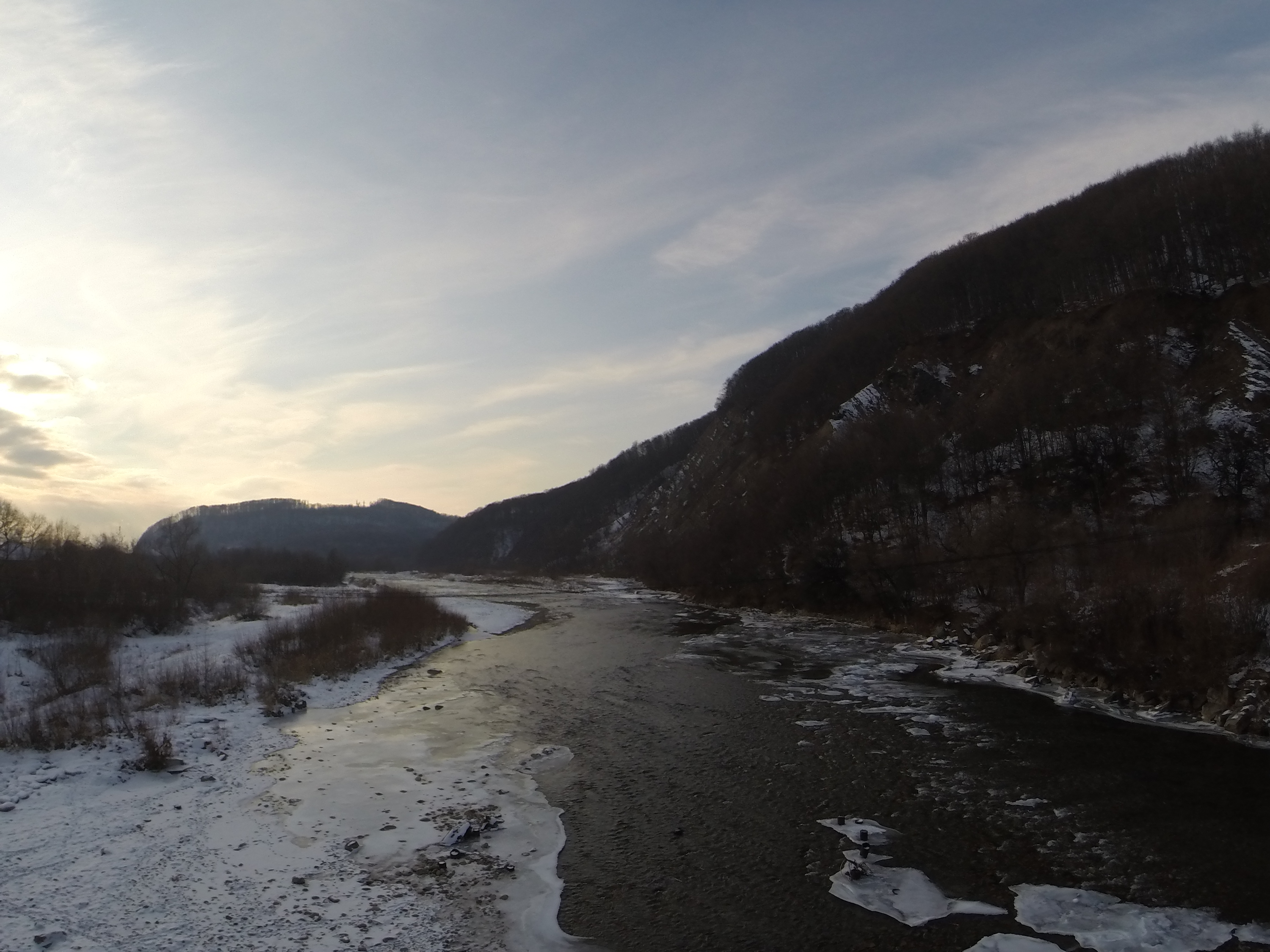 The river Bystrytsia Nadvirnianska (Bystrytsia of Nadvirna) as seen from the road bridge of highway H09 at the northern exit of the town of Nadvirna, Nadvirna rayon, Ivano-Frankivsk oblast, western Ukraine. Viewing direction is west of southwest (upstream).